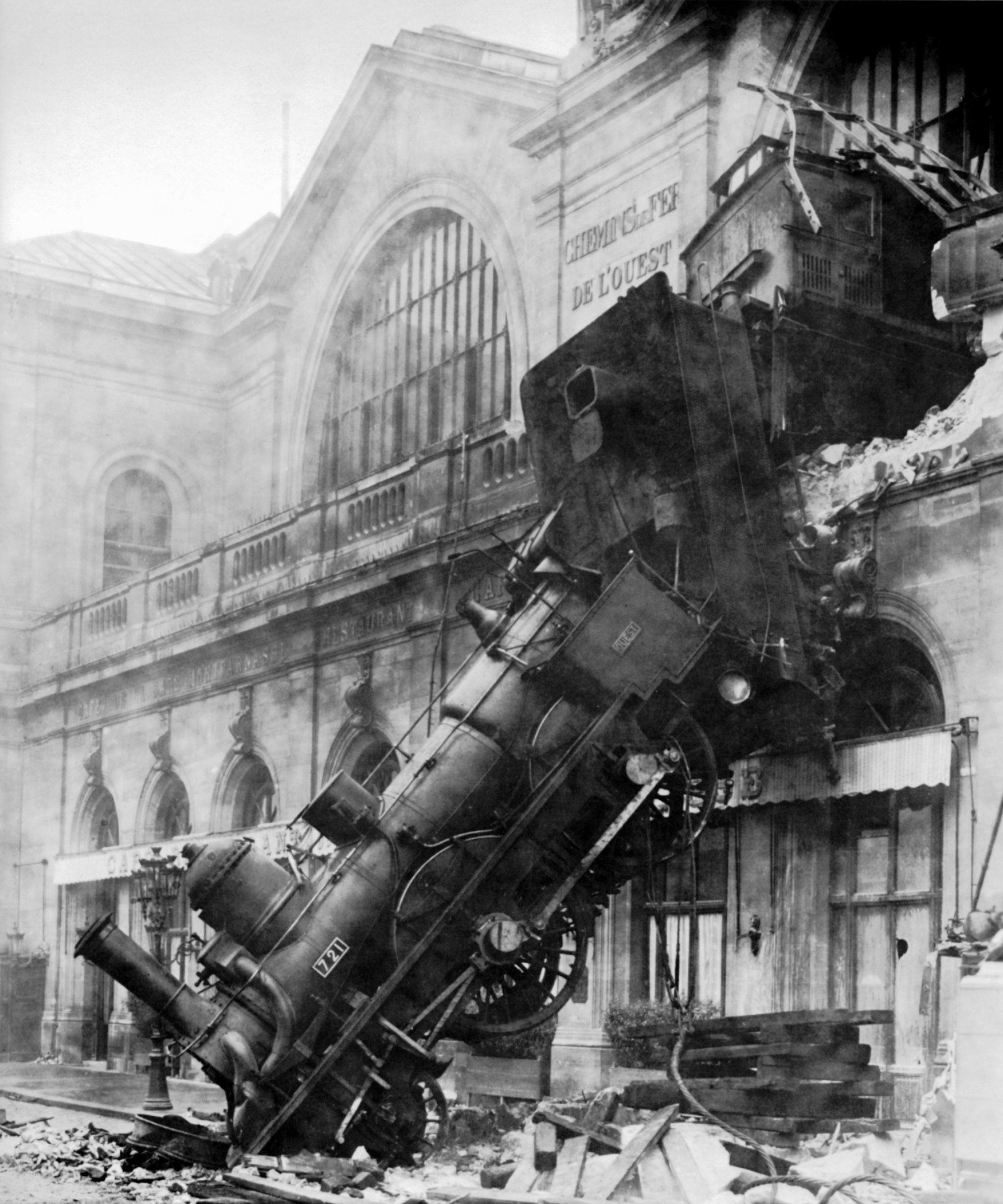 Train wreck at Montparnasse Station, at Place de Rennes side (now Place du 18 Juin 1940), Paris, France, 1895.